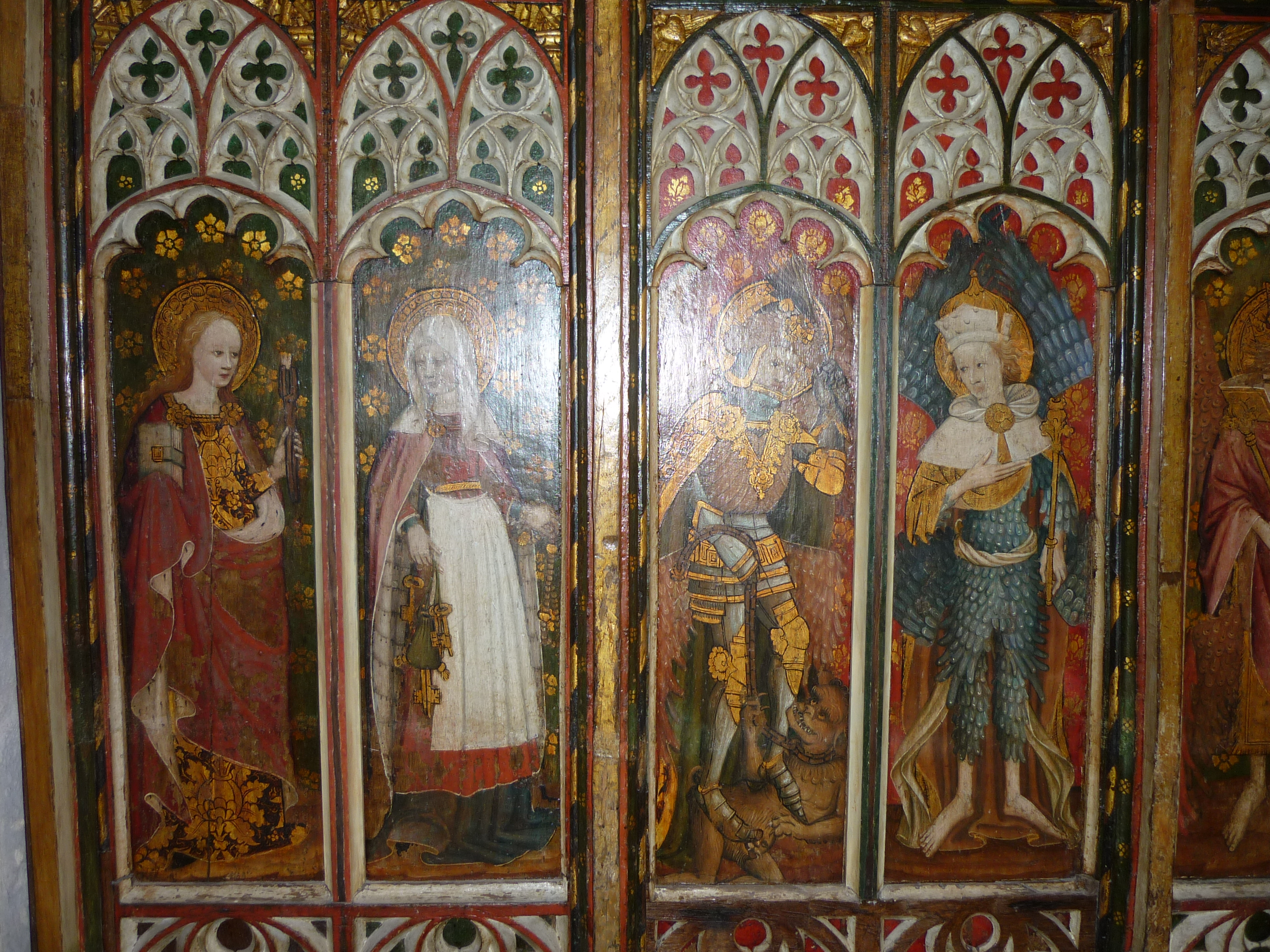 Barton Turf (Norfolk), Rood Screen, Saints Appolonia and Zita with Power and Virtue